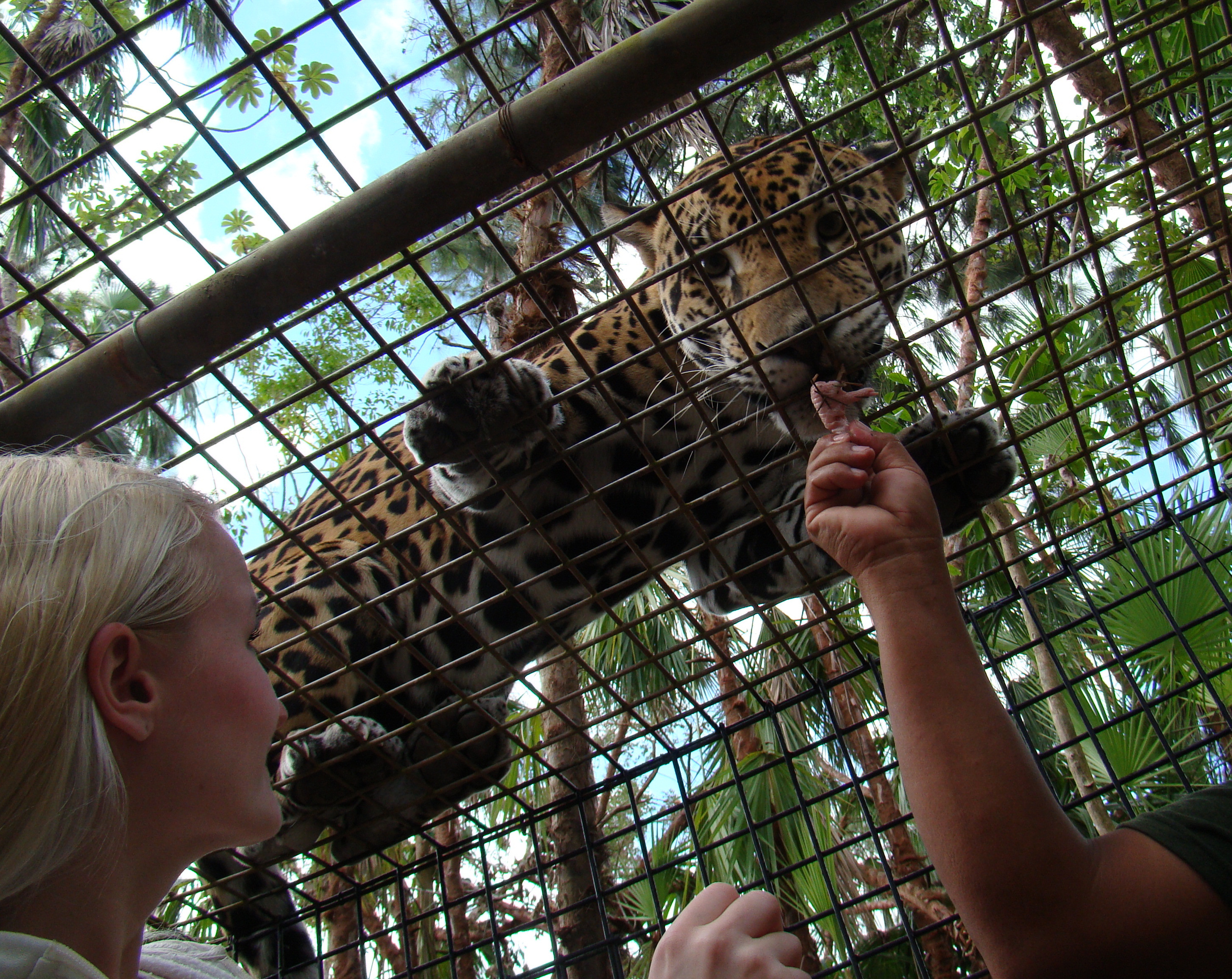 A jaguar encounter at the Belize Zoo. Park visitors go inside a cage within the jaguar enclosure while the jaguar is kept away. Then the jaguar is allowed to walk around in the enclosure at his own leisure. He will walk around and eventually some meat is brought out to make him approach the visitor cage. For a few minutes he will be close enough to let visitors touch him and feed him by hand.